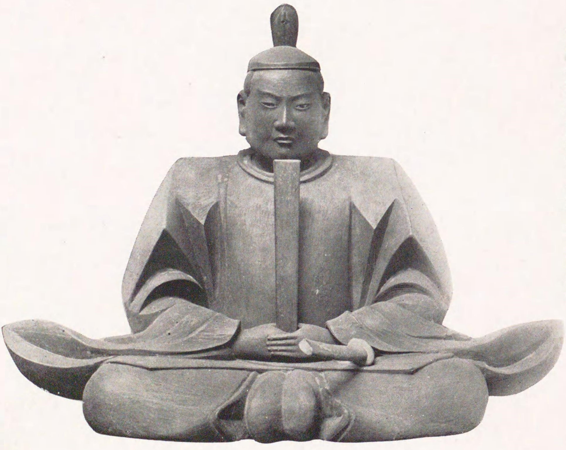 The statue of Kusunoki Masashige at Nagi shrine, Chihayaakasaka, Osaka prefecture.